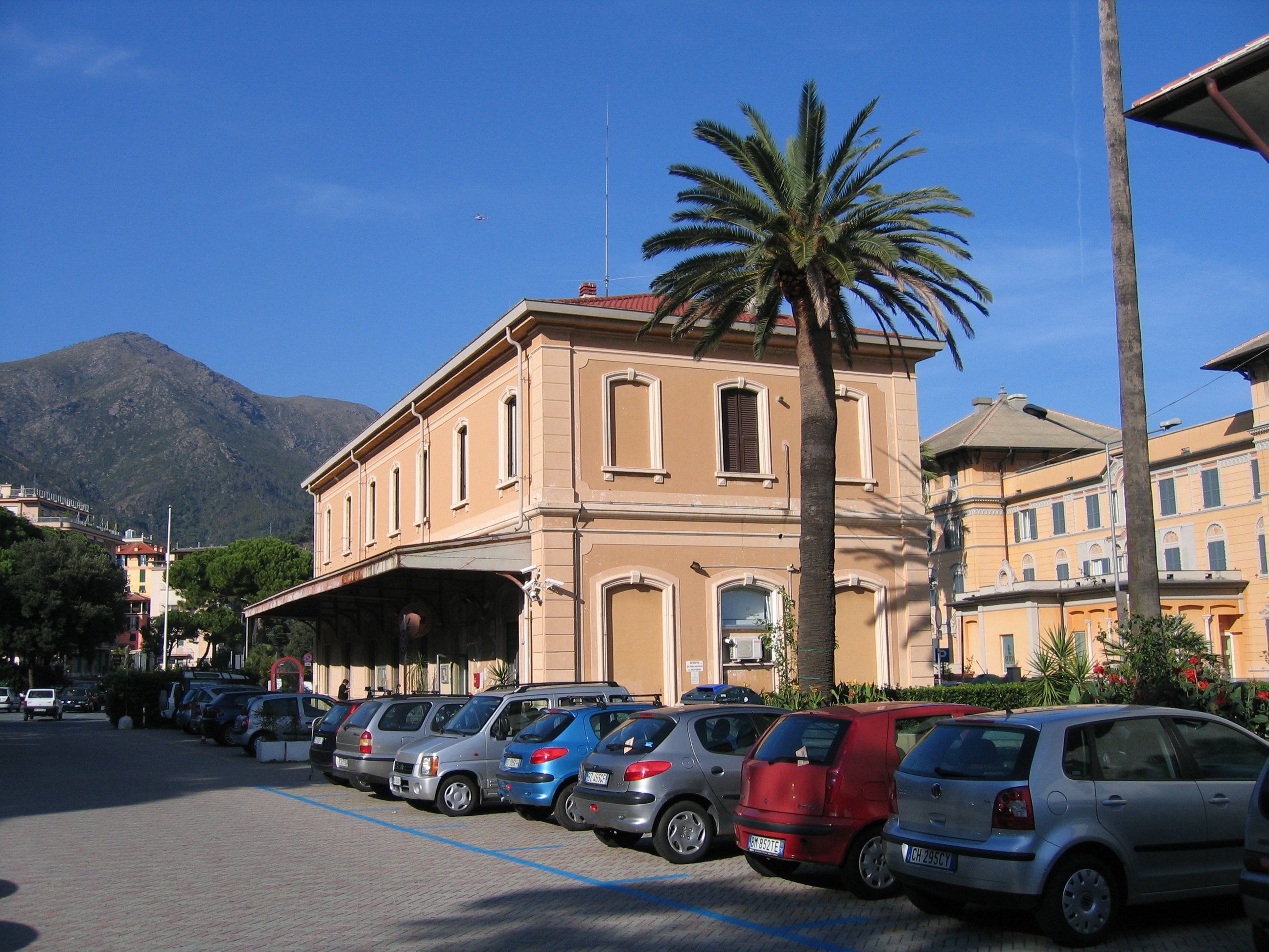 Old Arenzano railway station building